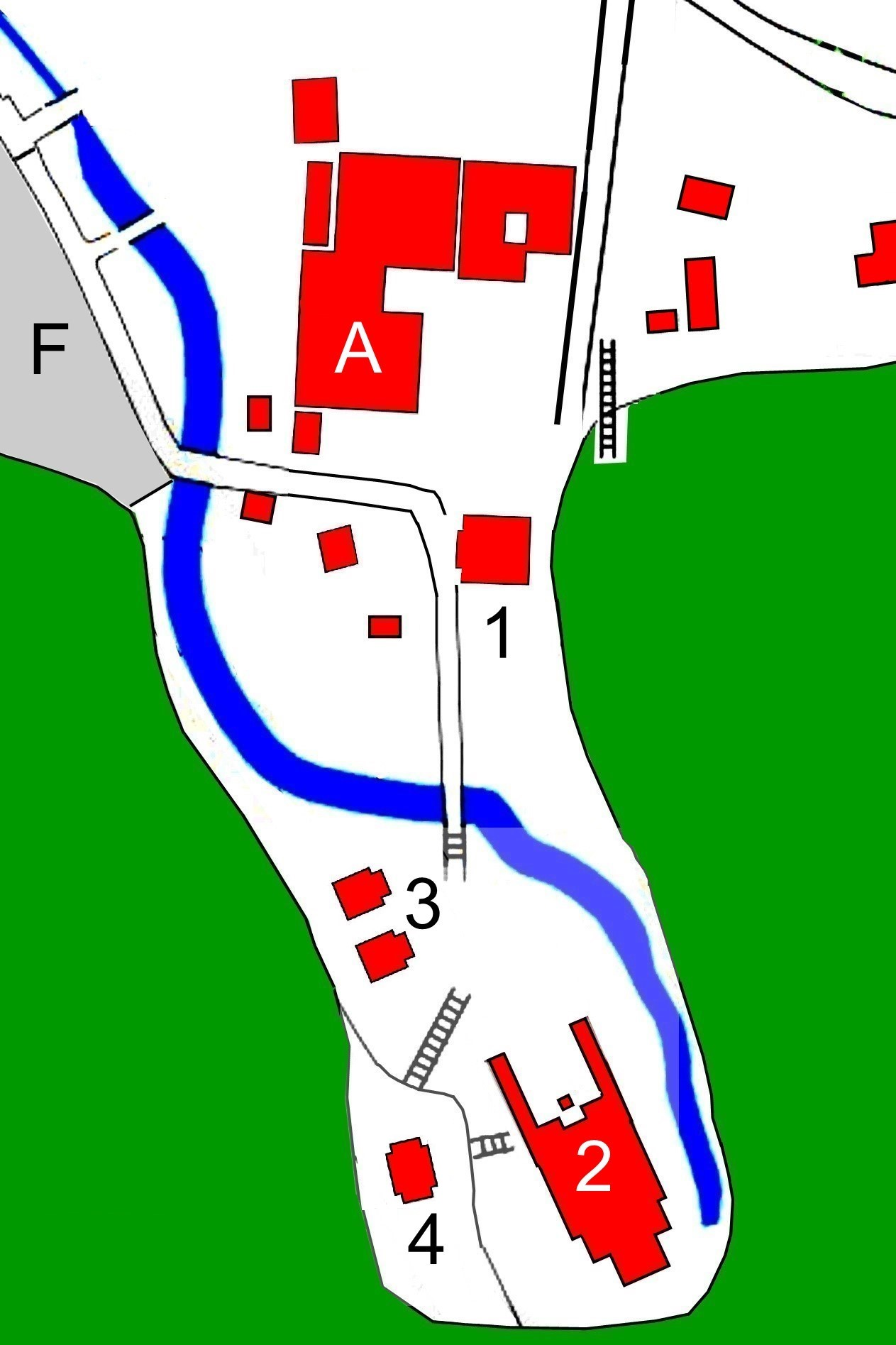 Layout of Maegami Temple, Japan